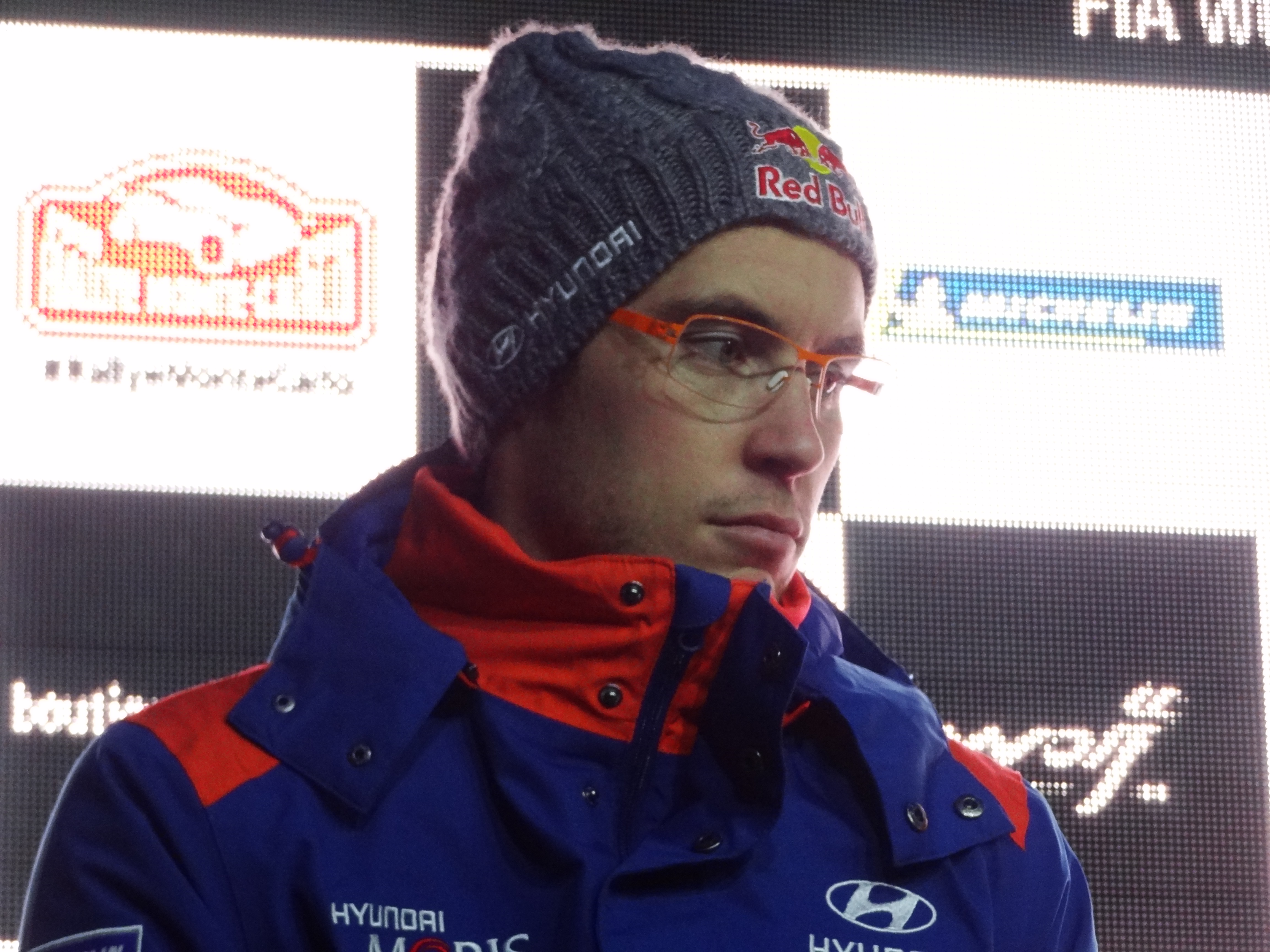 Thierry Neuville en interview au Rallye Monte-Carlo 2019.